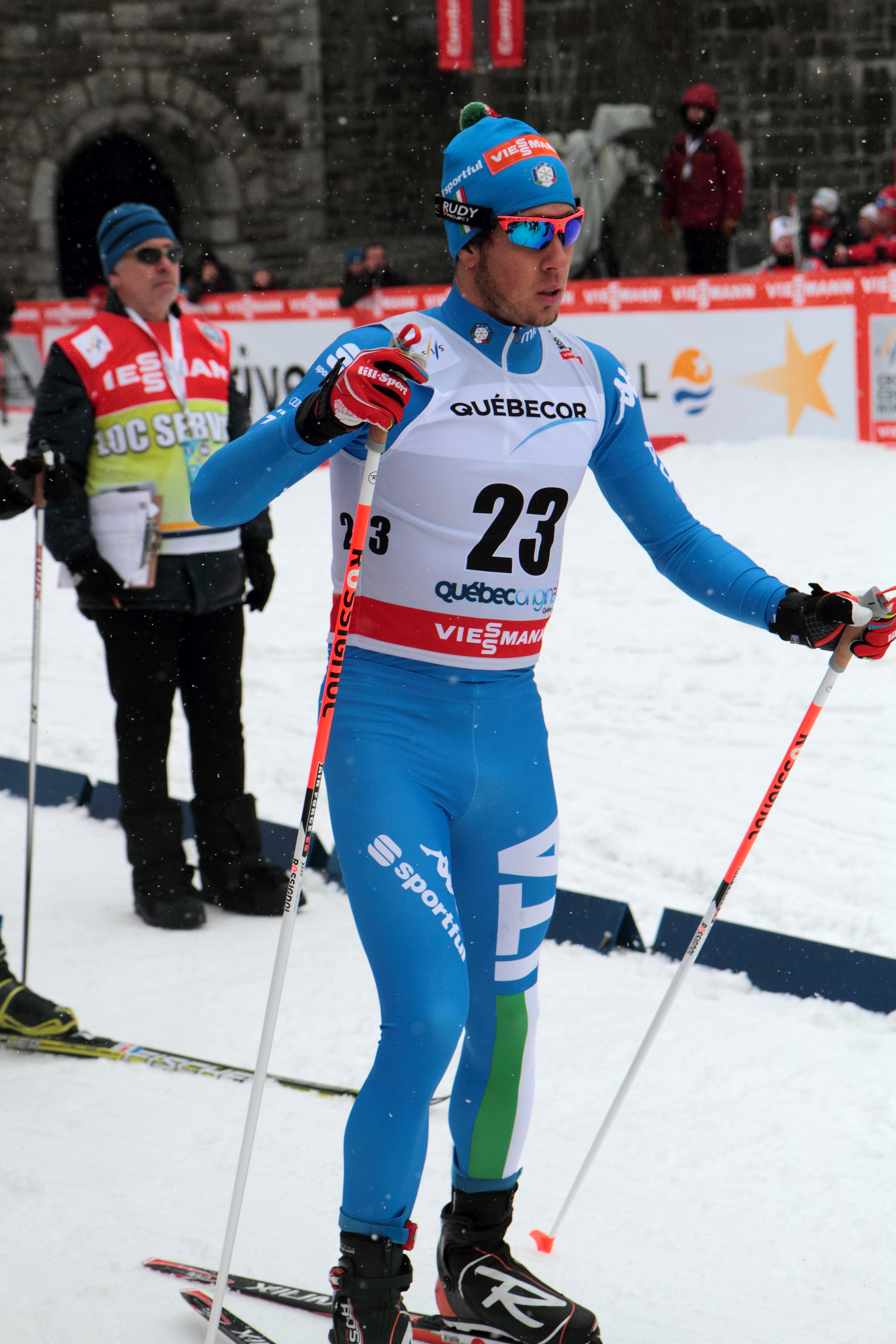 Federico Pellegrino, FIS Cross-Country World Cup 2012, Quebec, Canada.